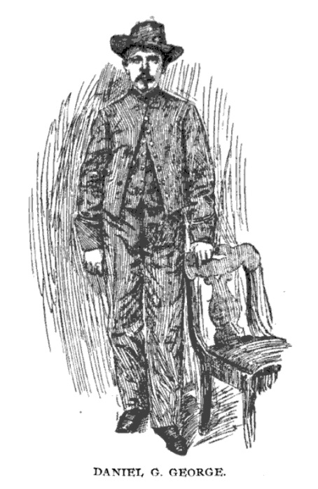 Image of Medal of Honor recipient